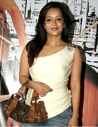 Reema sen